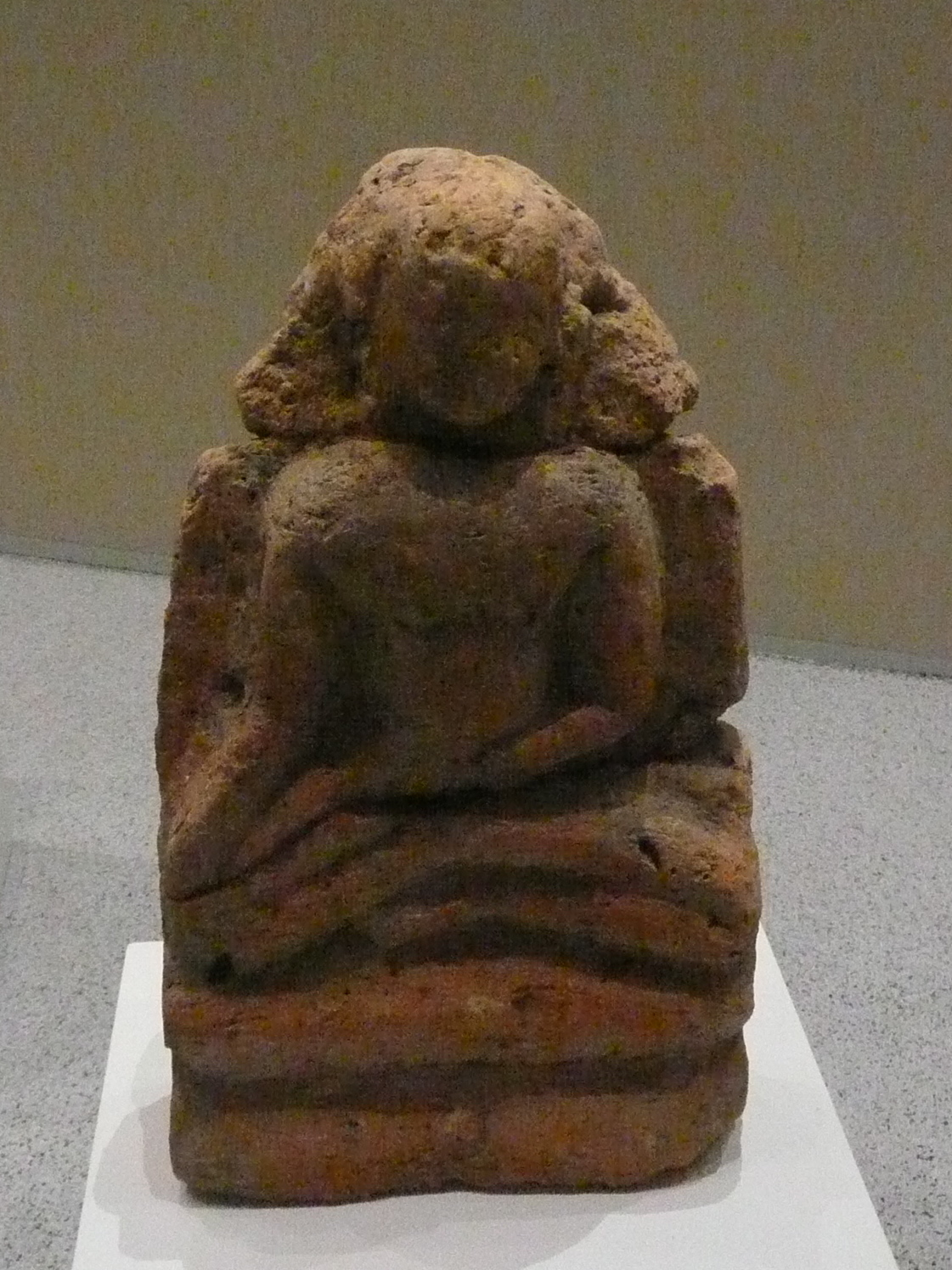 A Terracota Seated Buddha arch found at Pengkalan Bujang, South Kedah, from site 21/22, is dated c.1000-1100 CE. This artefact is declared as Tangible Heritage Object under the National Heritage List 2009.